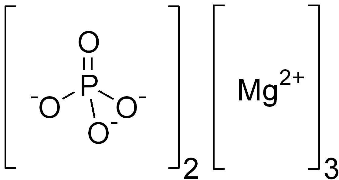 chemical structure of magnesium phoshate dibasic